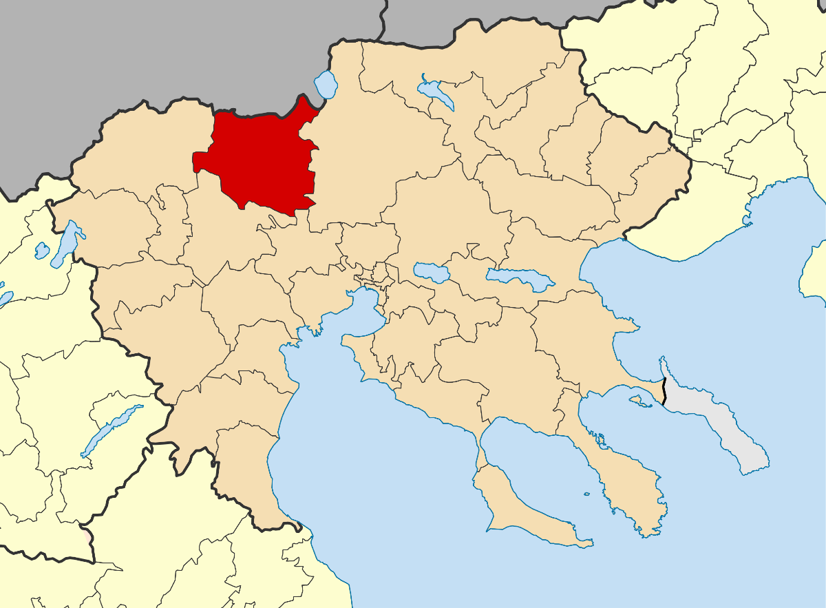 Locator map for Peonia municipality in Greek region Central Macedonia (2011)